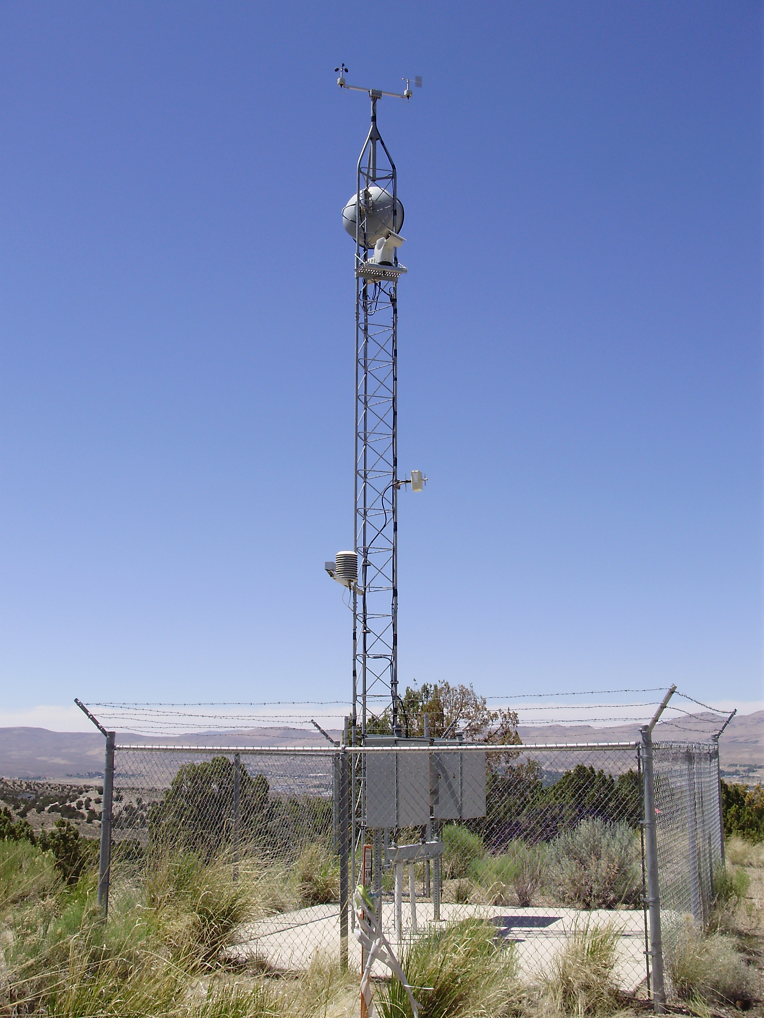 Nevada Department of Transportation (NDOT) Road Weather Information System (RWIS) at Lamoille Summit on Nevada State Route 227 (Lamoille Highway)